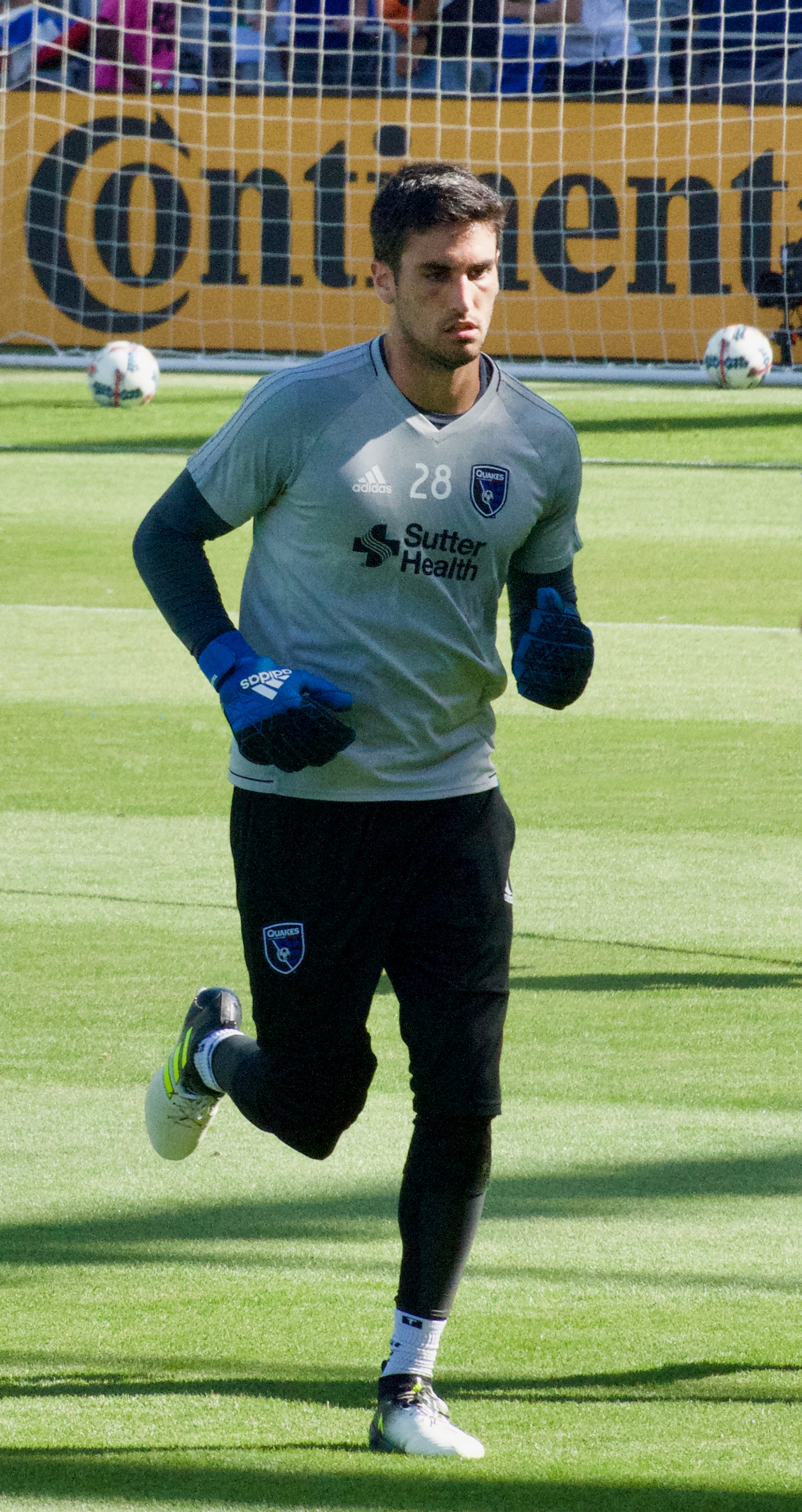 Andrew Tarbell playing for San Jose Earthquakes at Avaya Stadium, 29 July 2017.